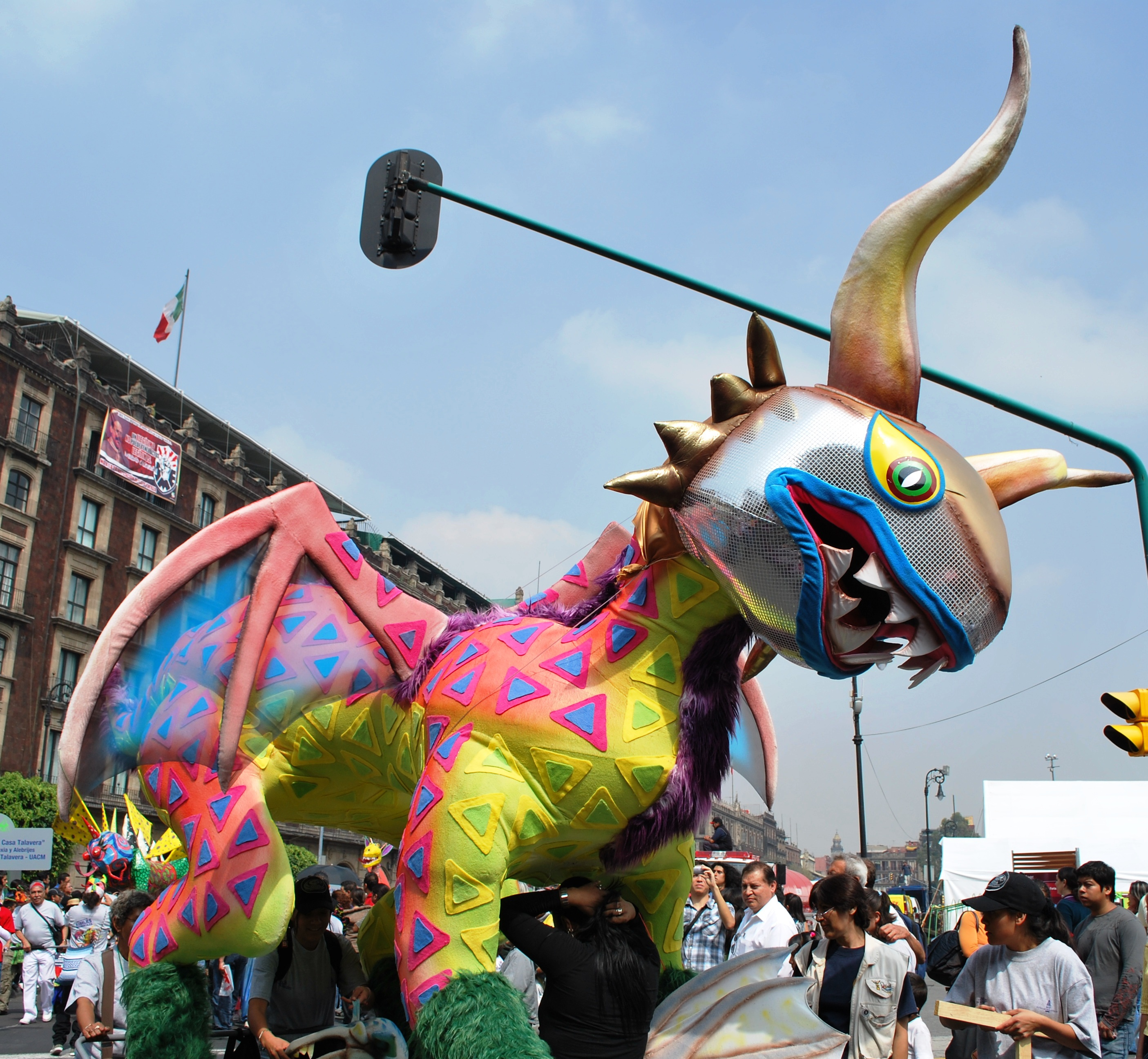 Alebrije named Alebrije Luchador at the beginning of the parade in the Zocalo